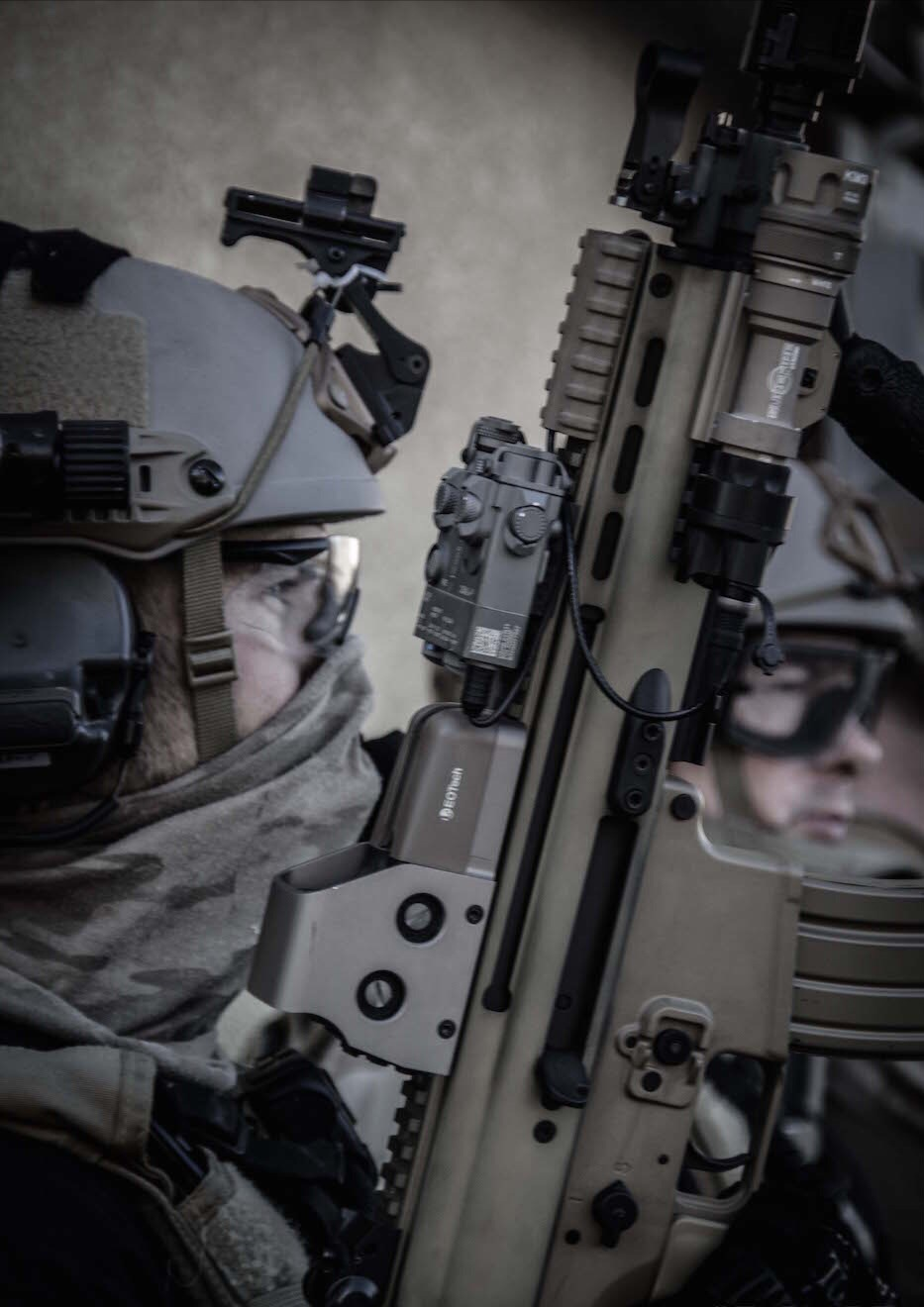 SFG operator in jordan